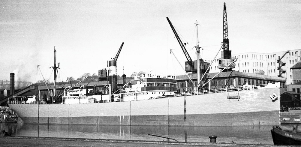 Bristol City at Canons Marsh Wharf in Bristol during March 1938.